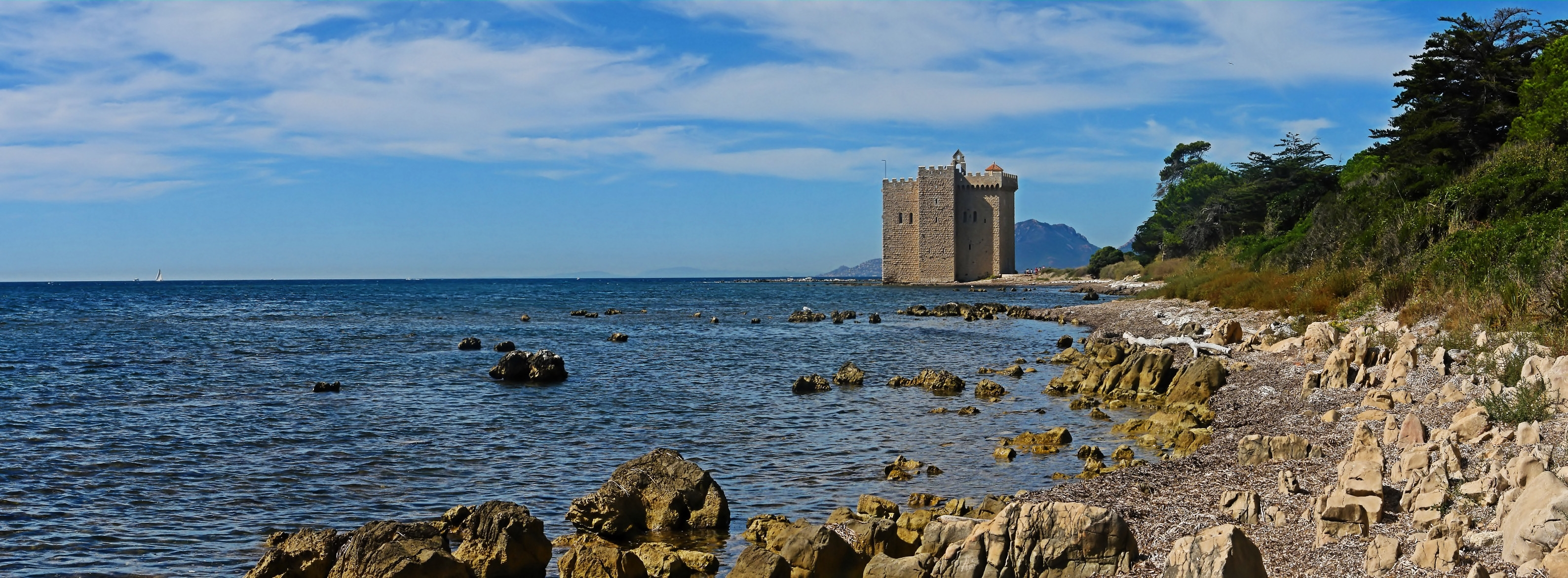 Old fortified monastery of the Lérins Abbey, on the island of Saint-Honorat, one of the Lérins Islands, next to Cannes. Building started in 1073 to protect the monks from the attacks of Saracen pirates. Construction period: 11th - 14th century. Obtained after stiching 3 pictures.